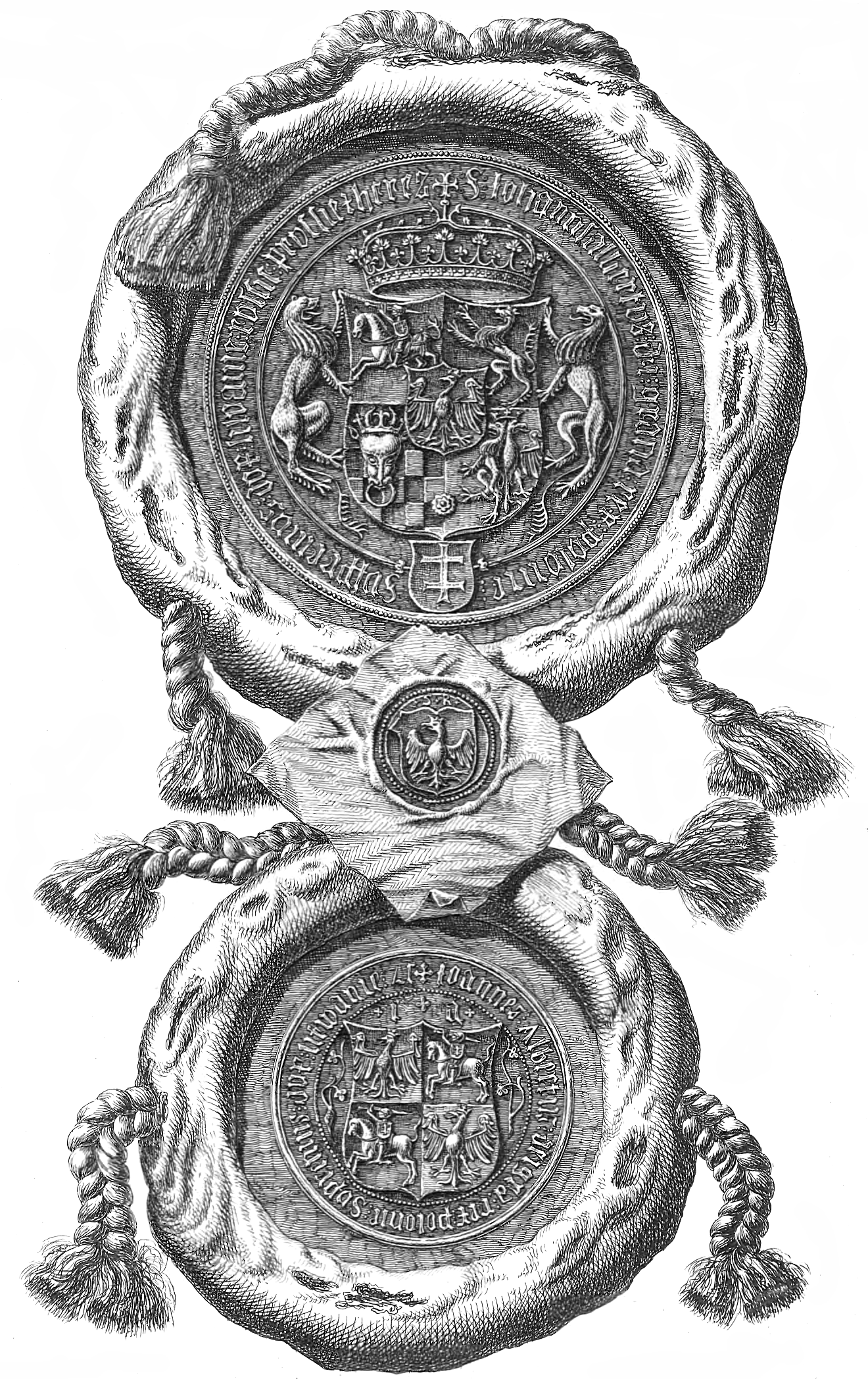 Jan Olbracht seals